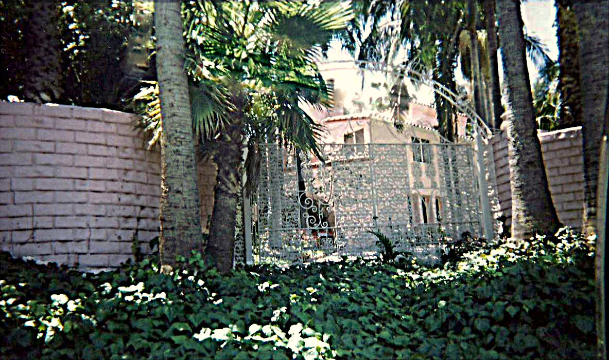 Gate and glimpse of exterior of the "Pink Palace" — former home of actress Jayne Mansfield, in Holmby Hills, Los Angeles.